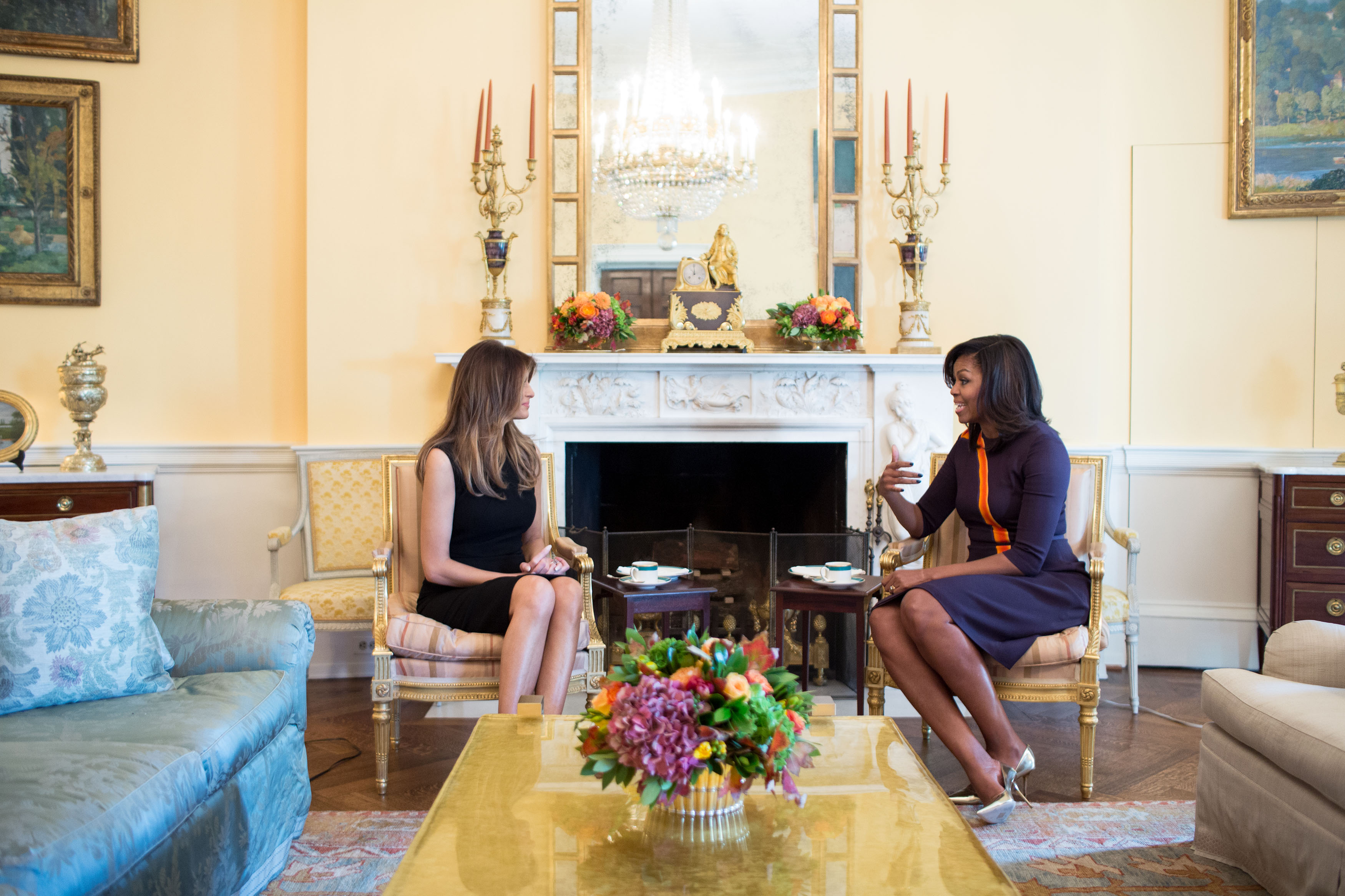 First Lady Michelle Obama meets with Melania Trump for tea in the Yellow Oval Room of the White House, Nov. 10, 2016. Michelle Obama in Narciso Rodriguez. (Official White House Photo by Chuck Kennedy)